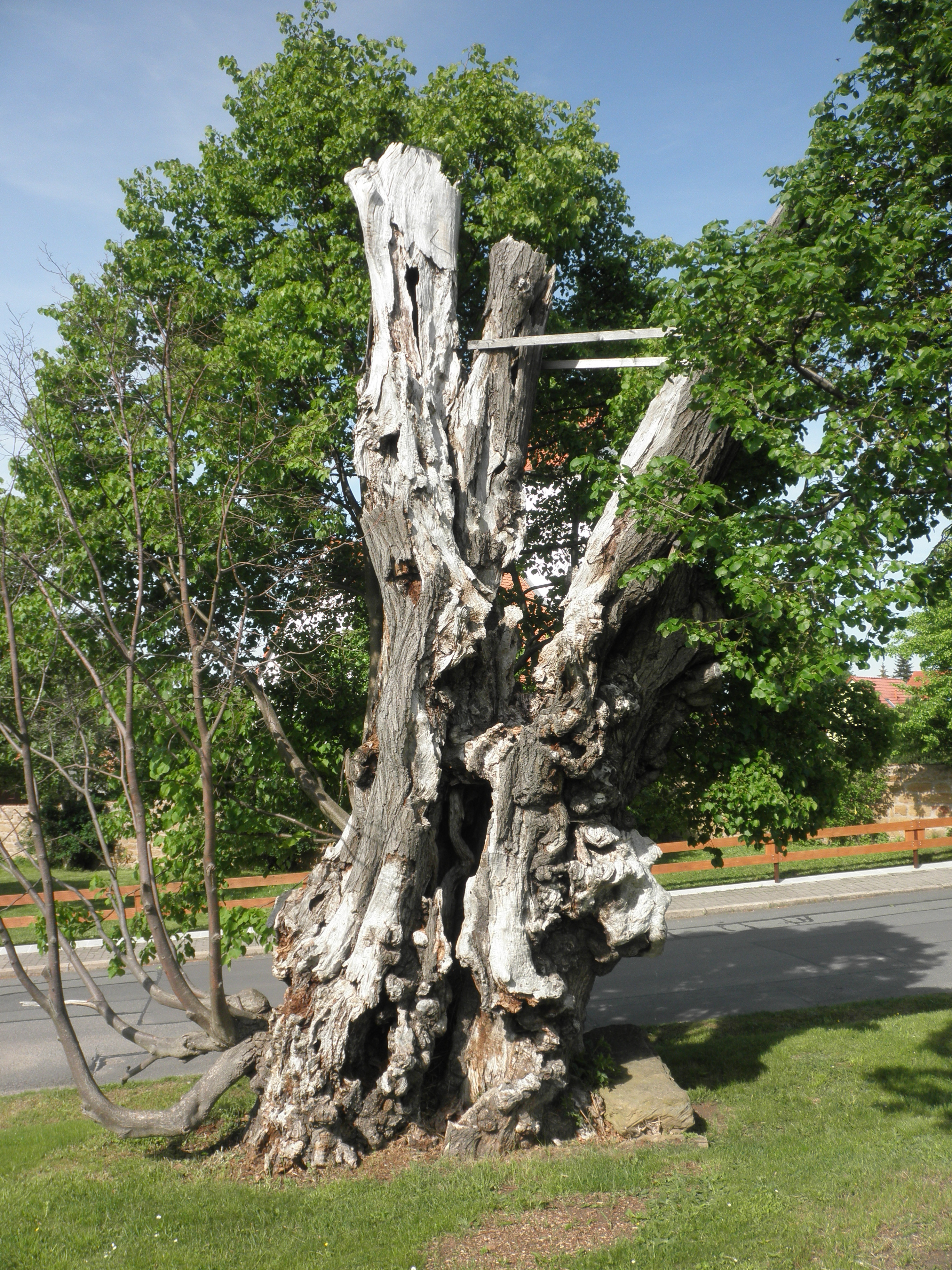 Lime Tree in Kornhochheim in Thuringia